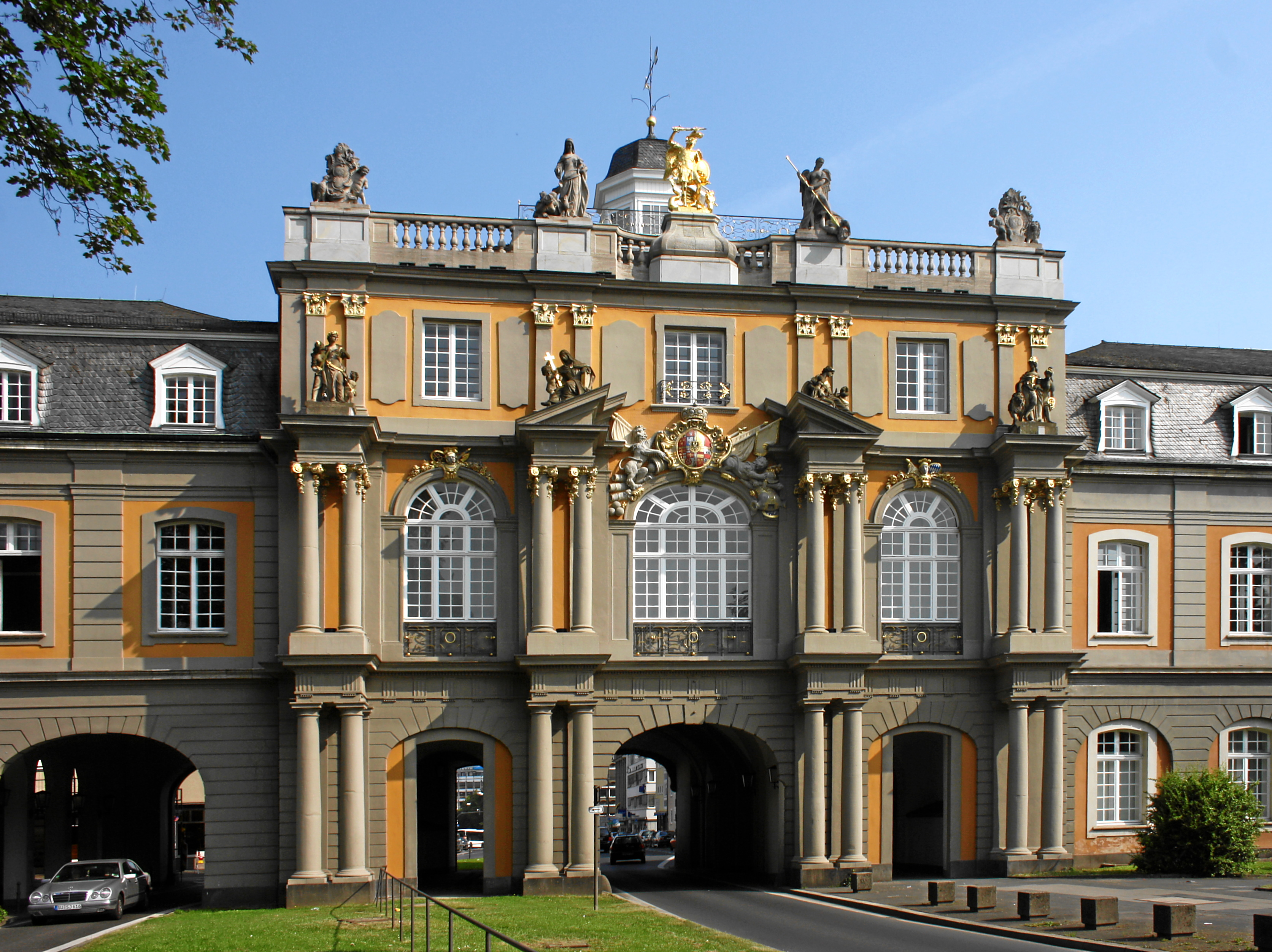 Bonn, Germany. Koblenzer Tor, part of the former residence castle, view from South.